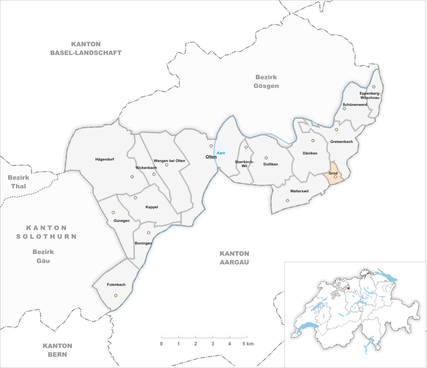 Municipality Grod Artist: Tschubby